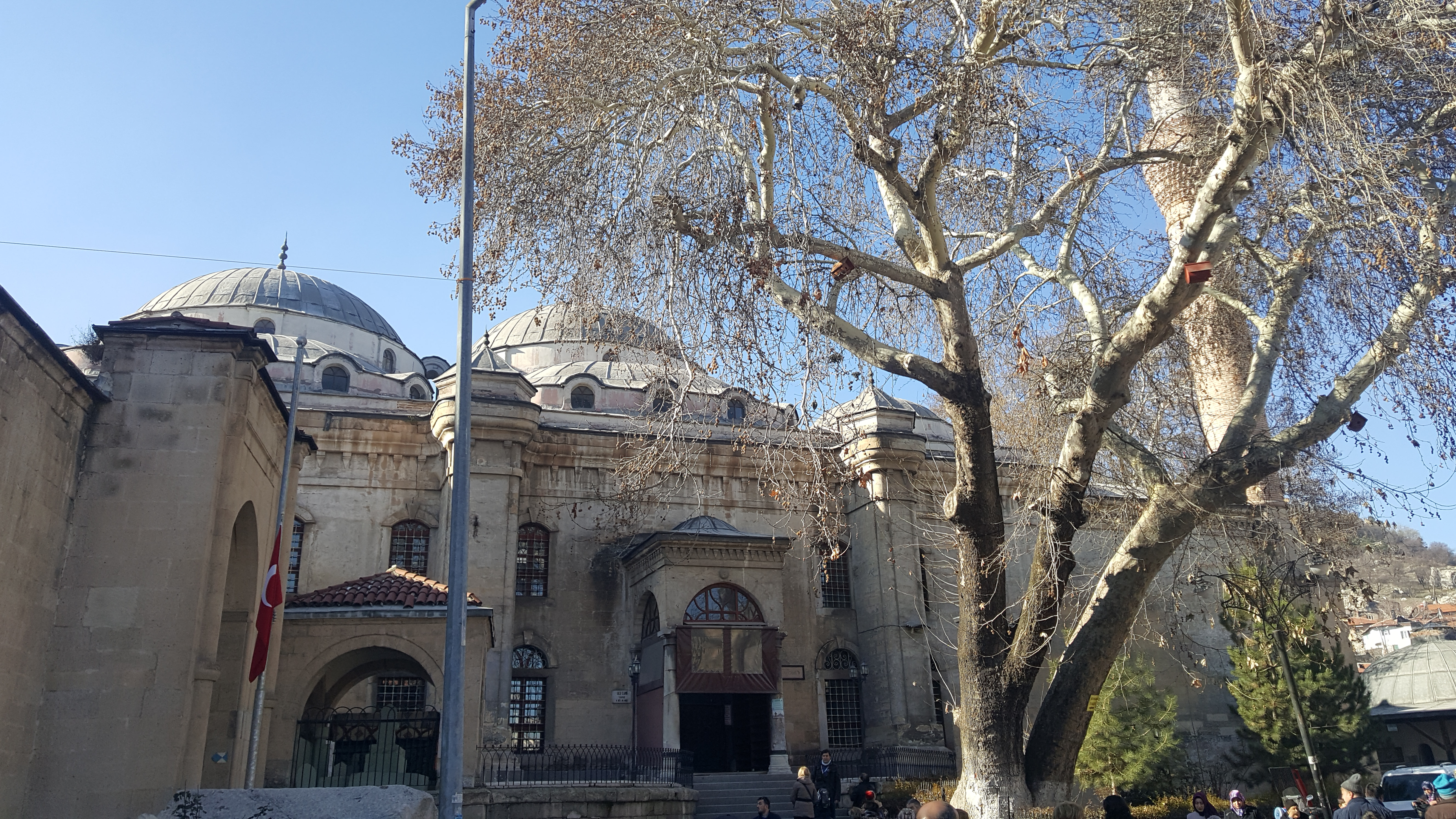 Kütahya Great Mosque